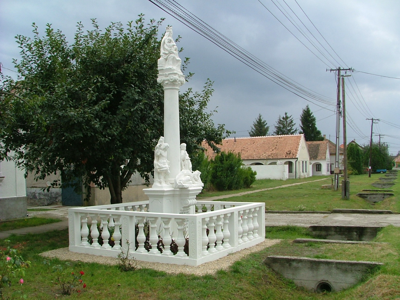 Sculpture of Saint Rosalia in Sarród This is a photo of a monument in Hungary, Identifier: 4697